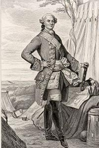 ArtistUnknownTitle